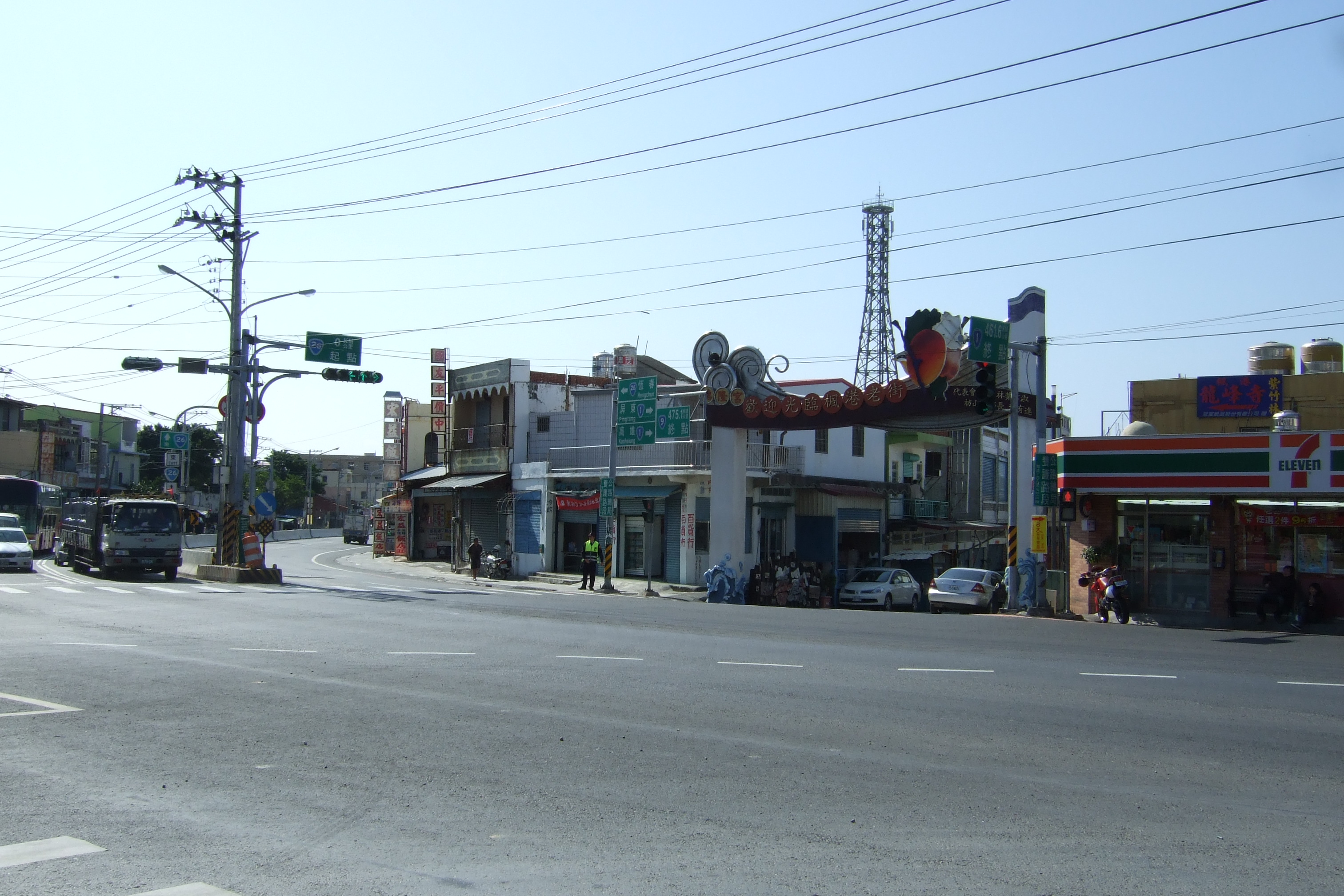 Fonggang, the end of Taiwan Provincial Way 1 and 9 and the begnning of Provincial Way No. 26. 中文（台灣）: 楓港，台一線與台九線終點和台26線的起點。